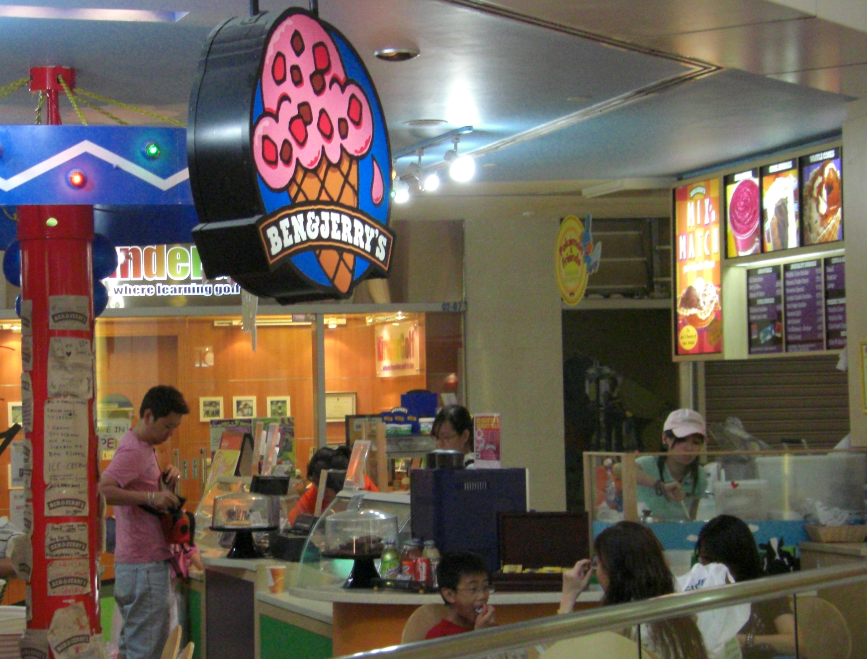 Ben & Jerry's branch at United Square Mall, Singapore.